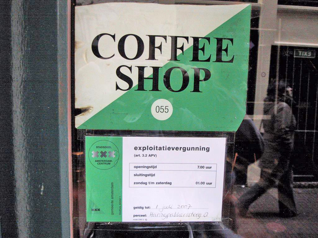 Me - 26/11/2005 English translation: exploitation permit opening time 7 am closing time sunday to saturday 1 am valid until: 1 july 2007 premises: Haringpakkerssteeg 8